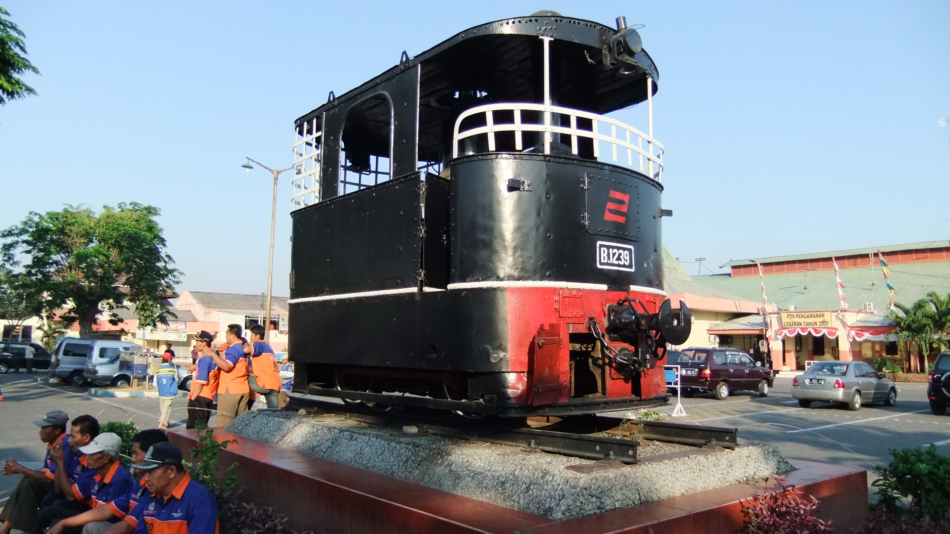 Steam locomotive B1239, Pasar Turi Station, Surabaya